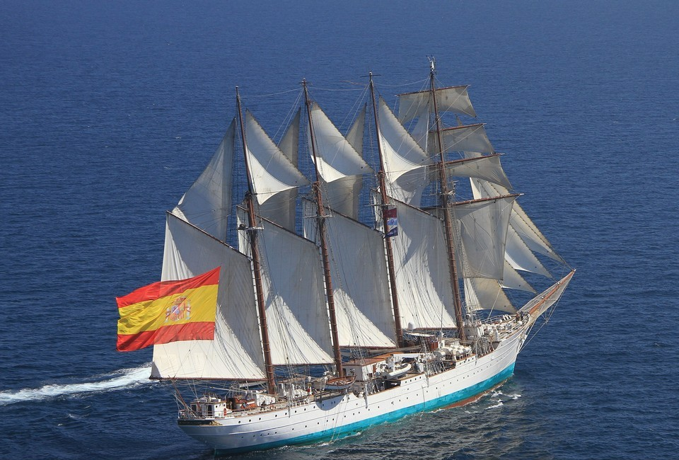 The Juan Sebastián Elcano, training ship for the Spanish Navy, with battle flag.